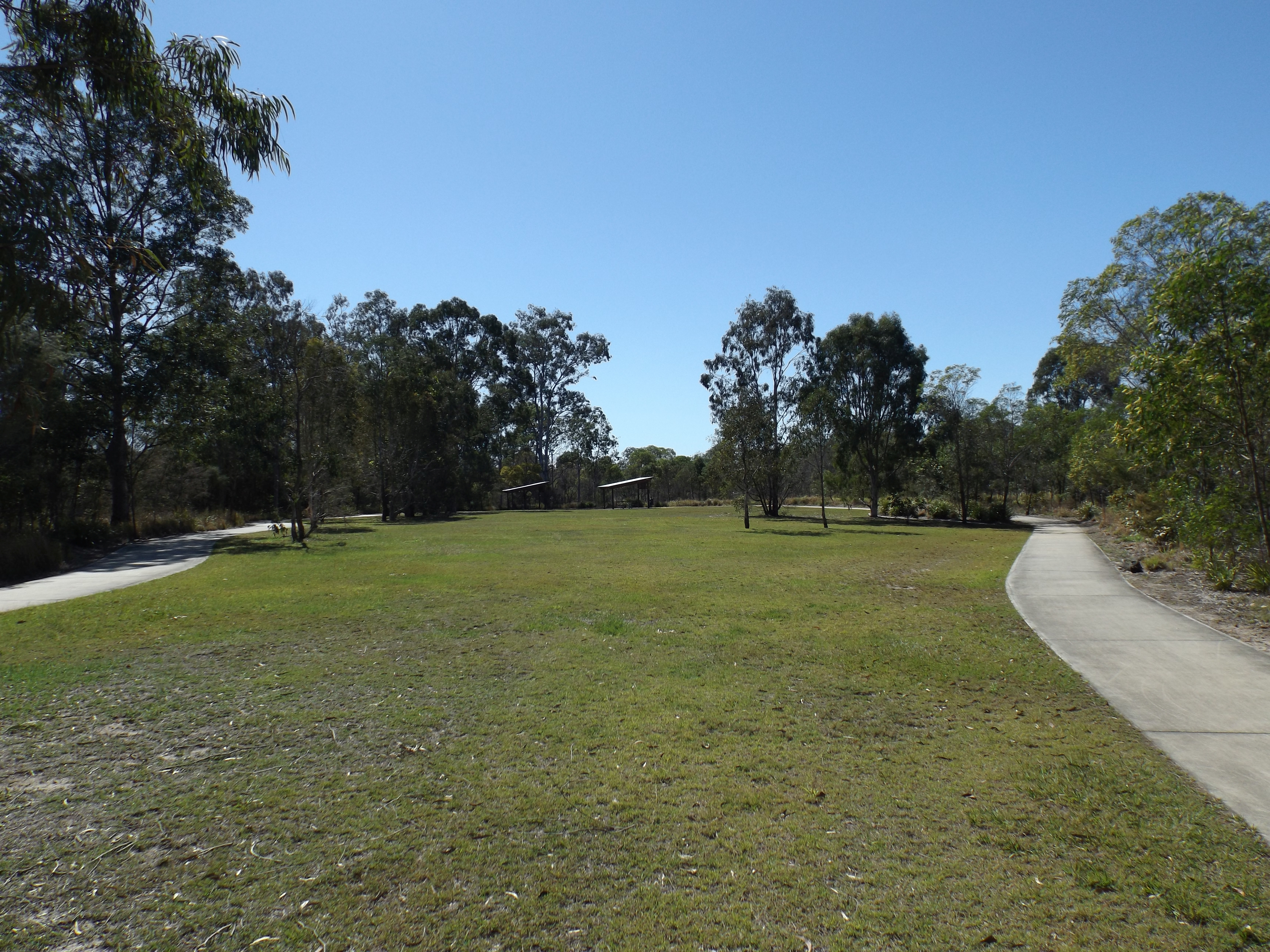 Photo of parklands at Berrinba Wetlands at Marsden, Logan City, Queensland, Australia.